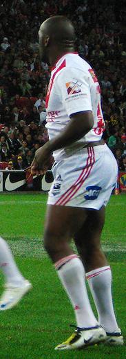 Dual-code Australian rugby player Wendell Sailor